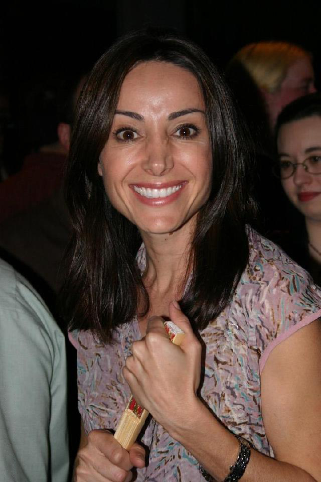 Robia LaMorte at Cleveland Vulkon Slayercon, April 2004